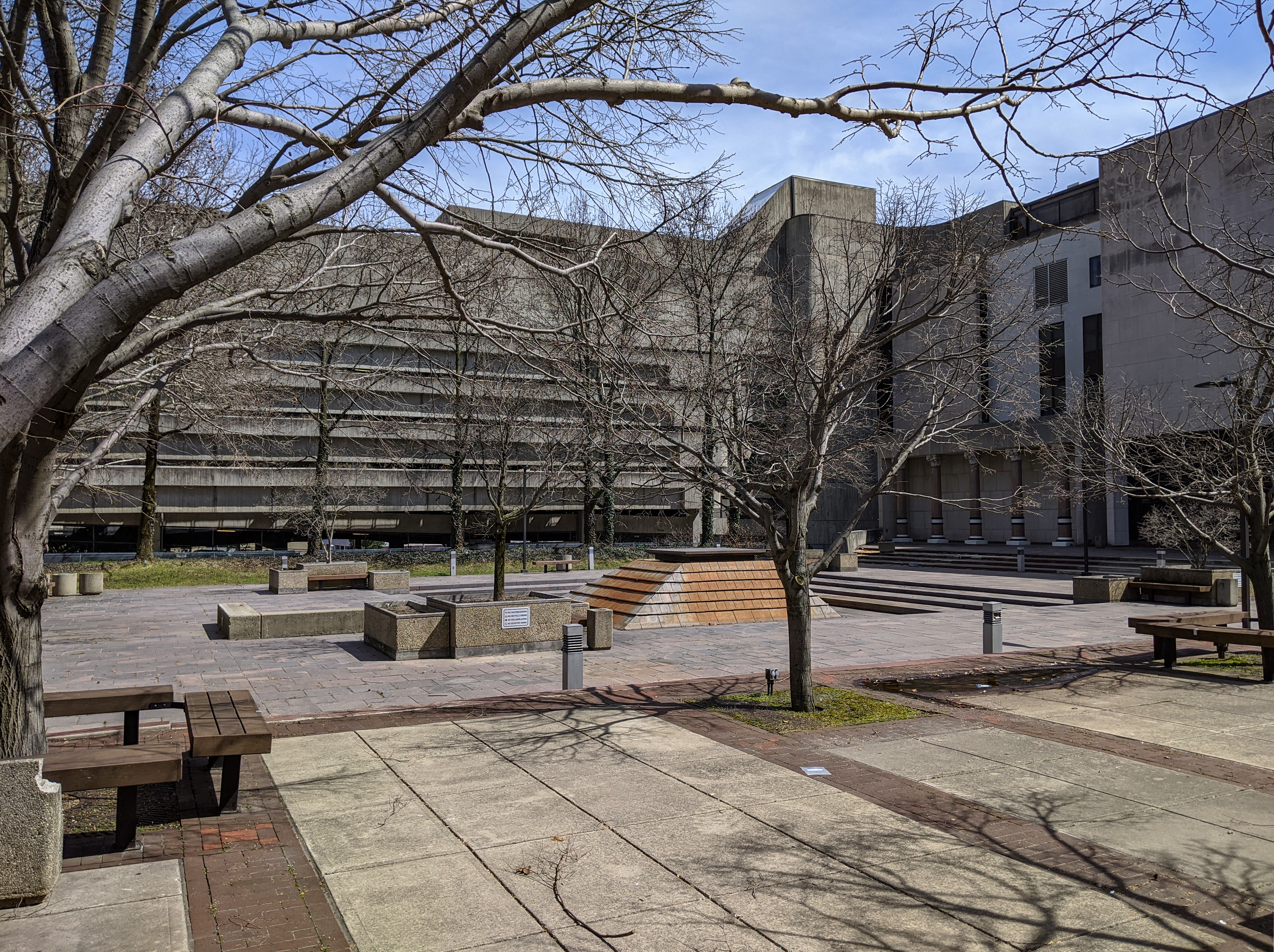 The closed Dorrian Commons Park in Columbus, Ohio.